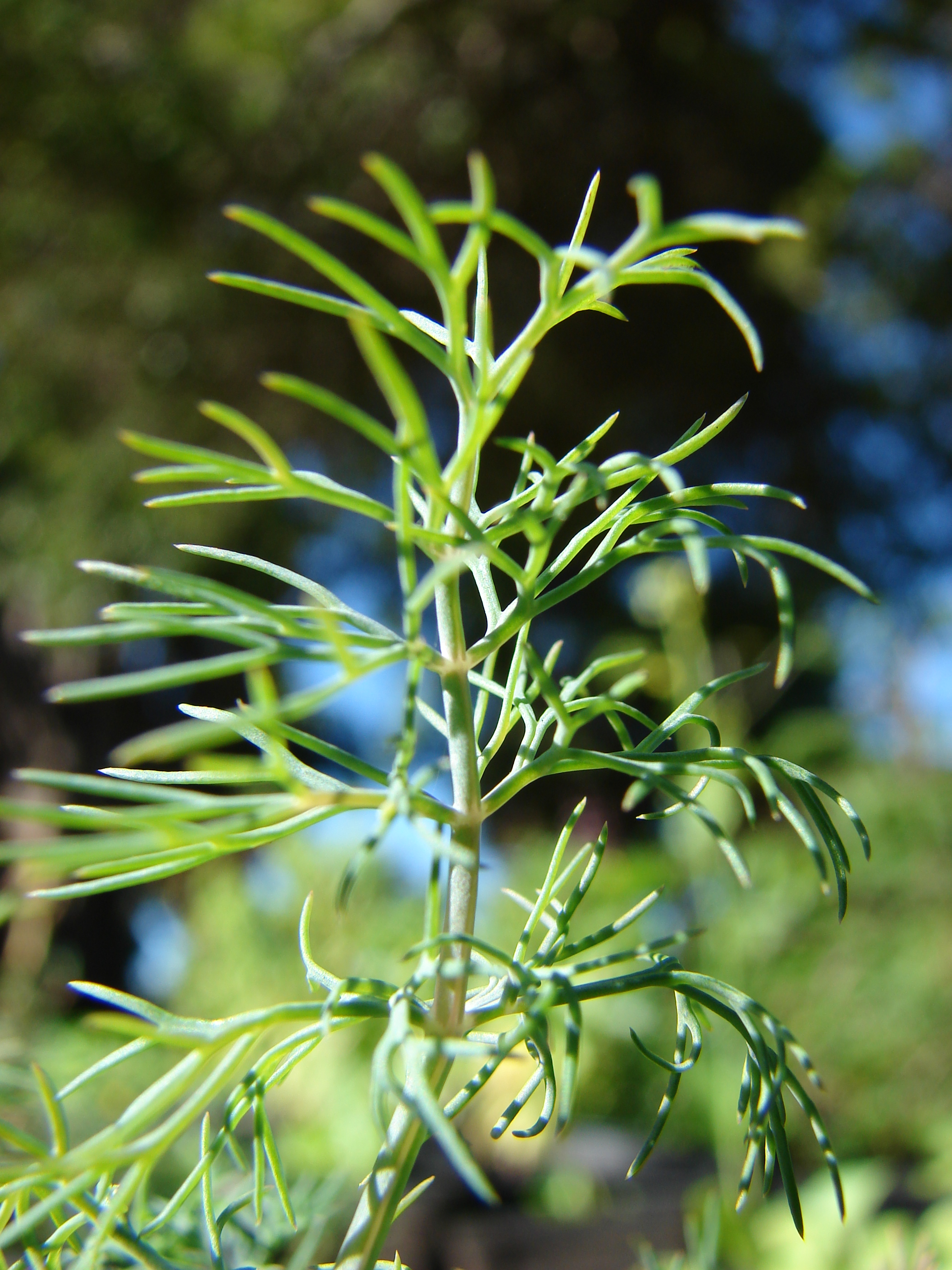 Anethum graveolens (leaves). Location: Maui, Makawao